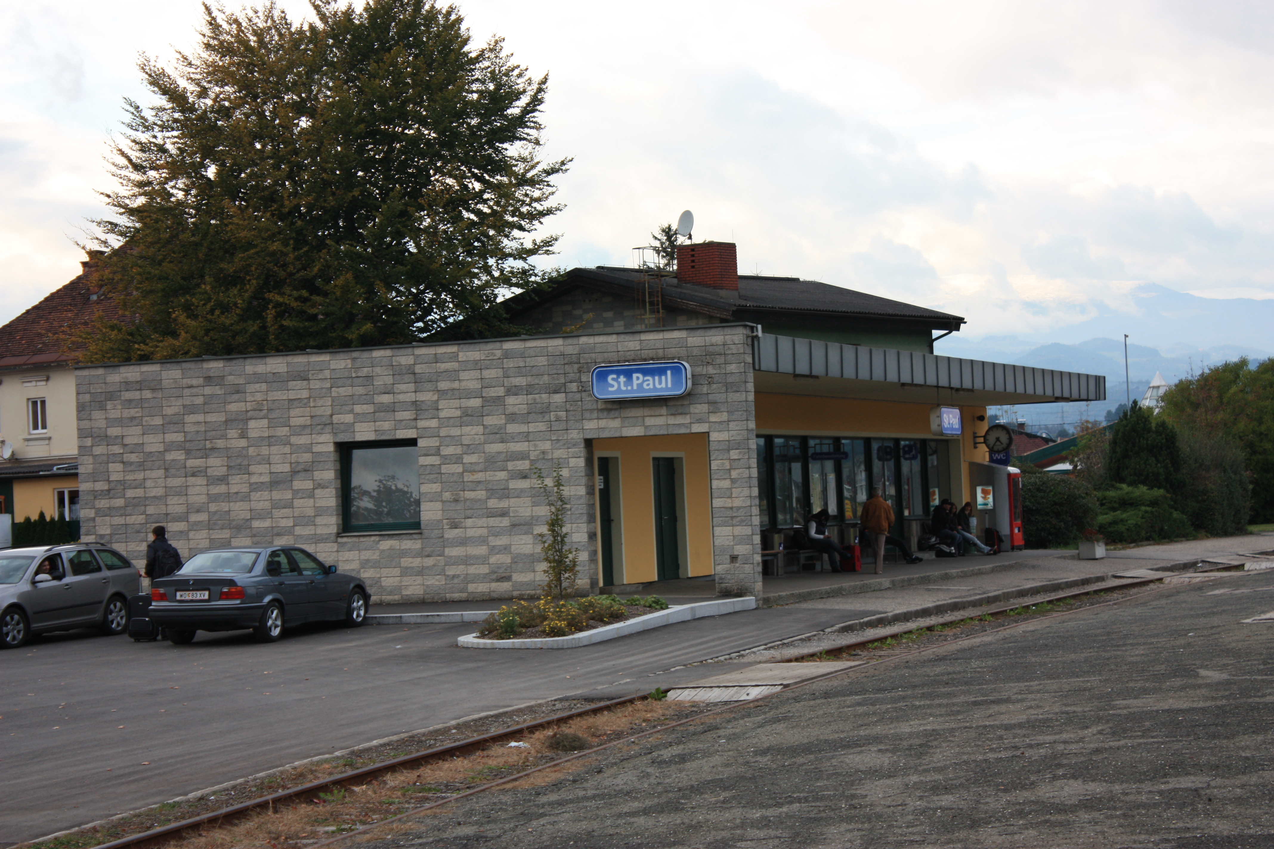 Train station Locality: Sankt Paul im Lavanttal Community:Sankt Paul im Lavanttal